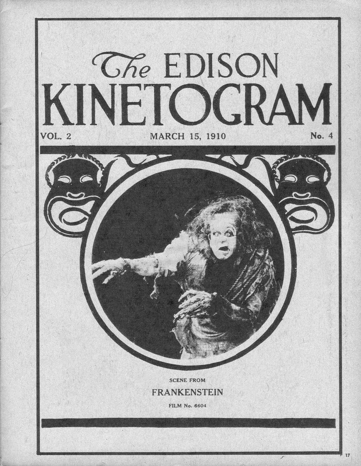 The Edison Kinetogram Catalogue featuring a still from Wikipedia:Frankenstein (1910 film)